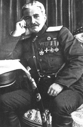 Armenian national hero General Andranik in Paris, 1921.